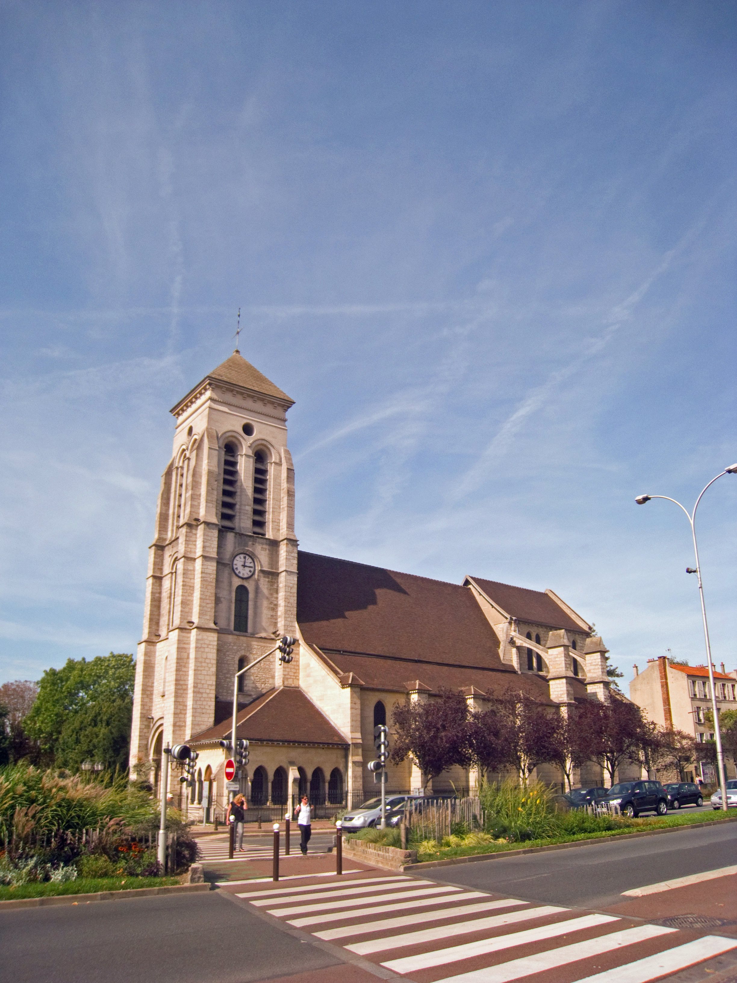 Saint-Chistophe Church, Créteil, Val-de-Marne, France.